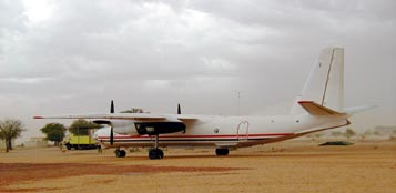 Original caption states, "We were told that airpower is used to attack villages. Above, a Soviet made Antonov" In Darfur, Sudan.